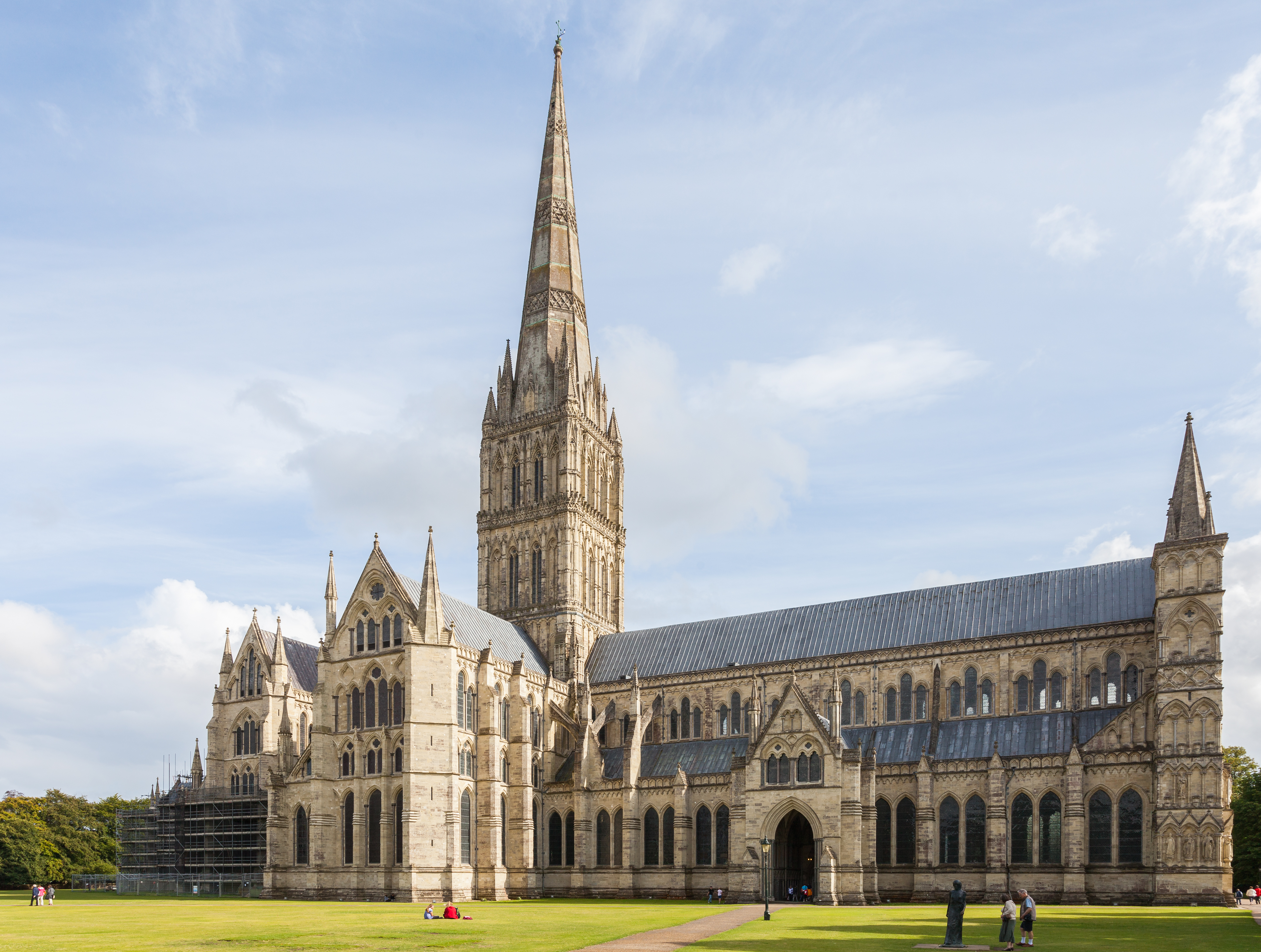 Salisbury Cathedral, Salisbury, England